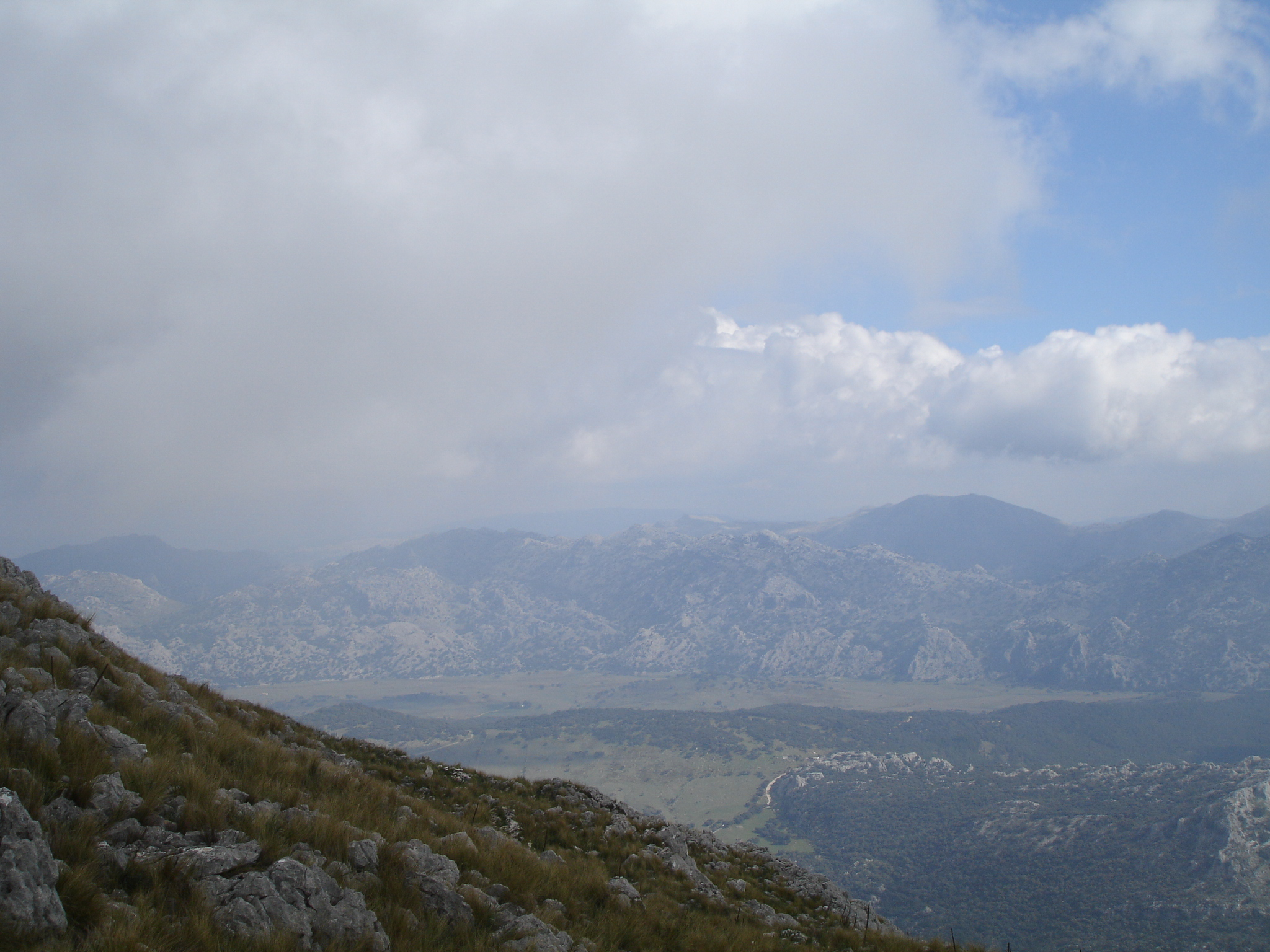 View of Llanos del Republicano (or Llanos de Villaluenga) from near the top of Navazo Alto